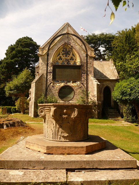 Brownsea Island: well cum gravestone. This well forms a rather ornate gravestone. The rectangular plaque states: Beneath this spot rests the body of the Right Honourable George Augustus Frederick Cavendish-Bentinck, of Her Majesty's Privy Council and a Member of Parliament in which he sat for 31 consecutive years. Born July 9 1821, died April 9 1891 Only son of Major General Lord Frederick Cavendish-Bentinck and grandson of William Henry third Duke of Portland. The circular plaque below it is in memory of Prudence Penelope, widow of the above. On the back of the rectangular plaque, the following is stated: This ancient well head or 'pozzo', which surmounts the grave of the late Right Honourable George Augustus Frederick Cavendish-Bentinck — brought by him from Italy as a monument of sixteenth century art revival — has been placed here in his memory by his widow and children.